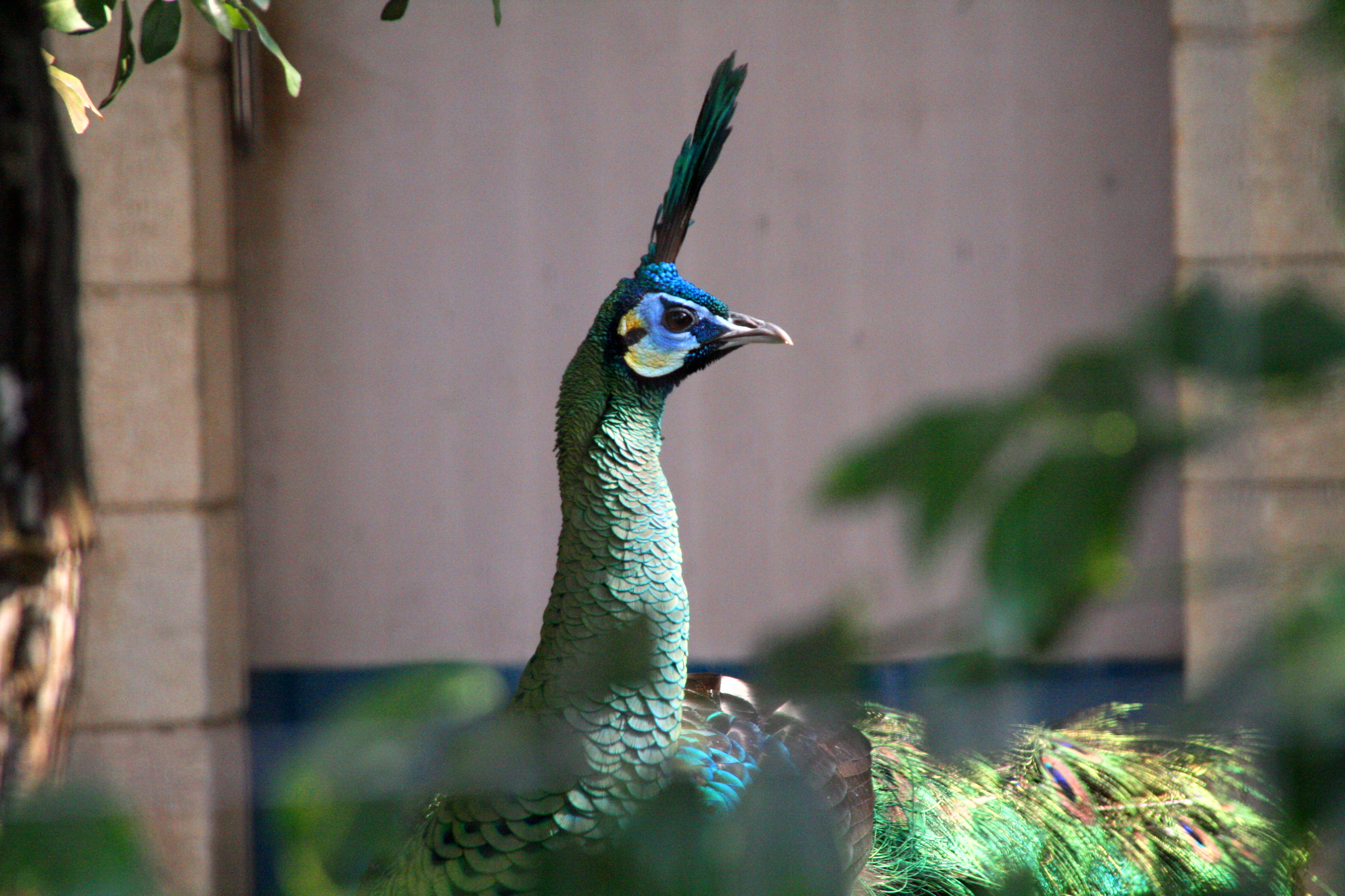 This is a Green Peacock at the Ueno Zoo.